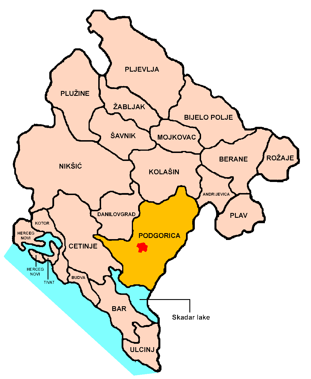 Location of Podgorica city and municipality within Montenegro